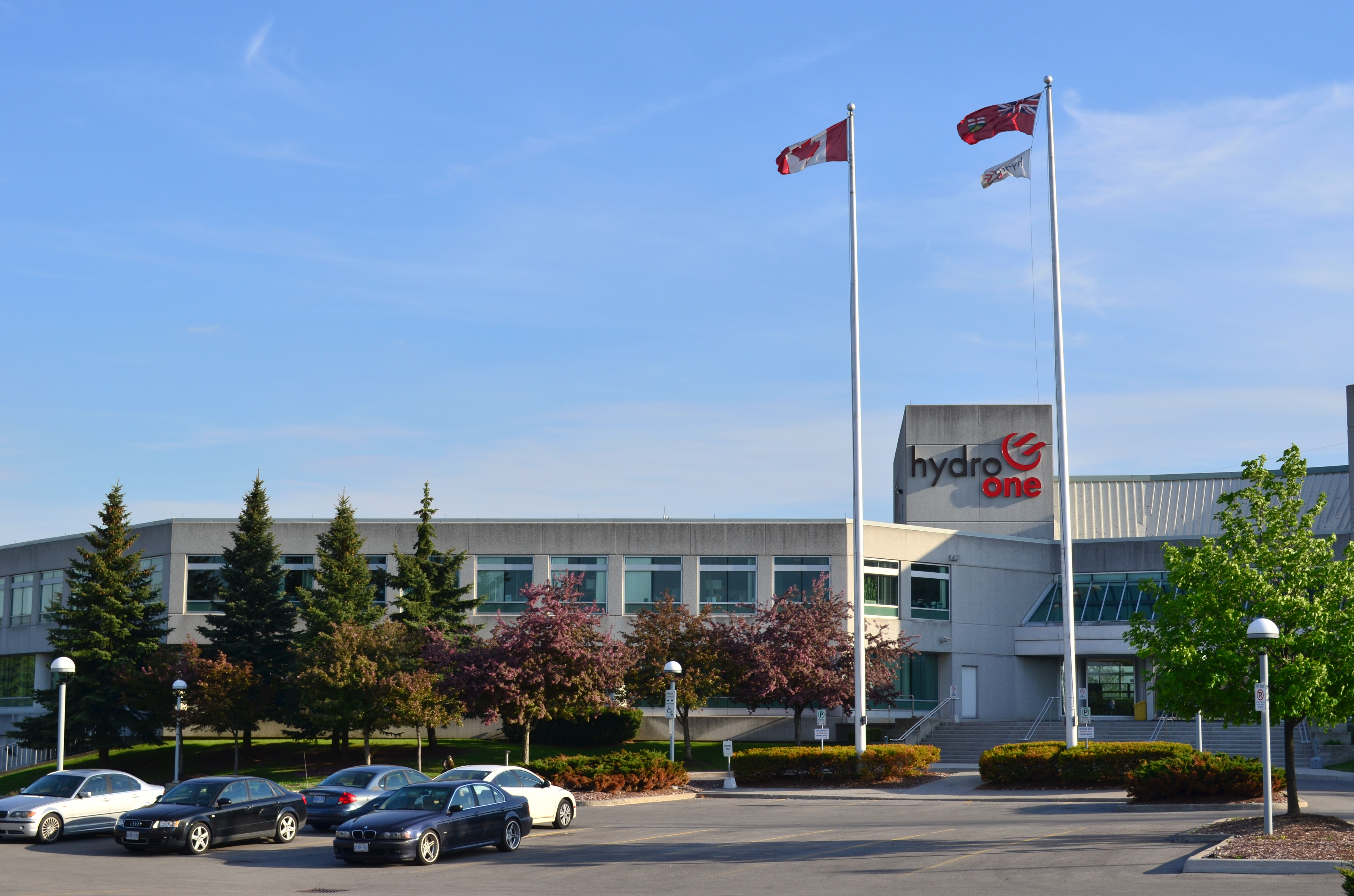 185 Clegg Road, Markham, ON